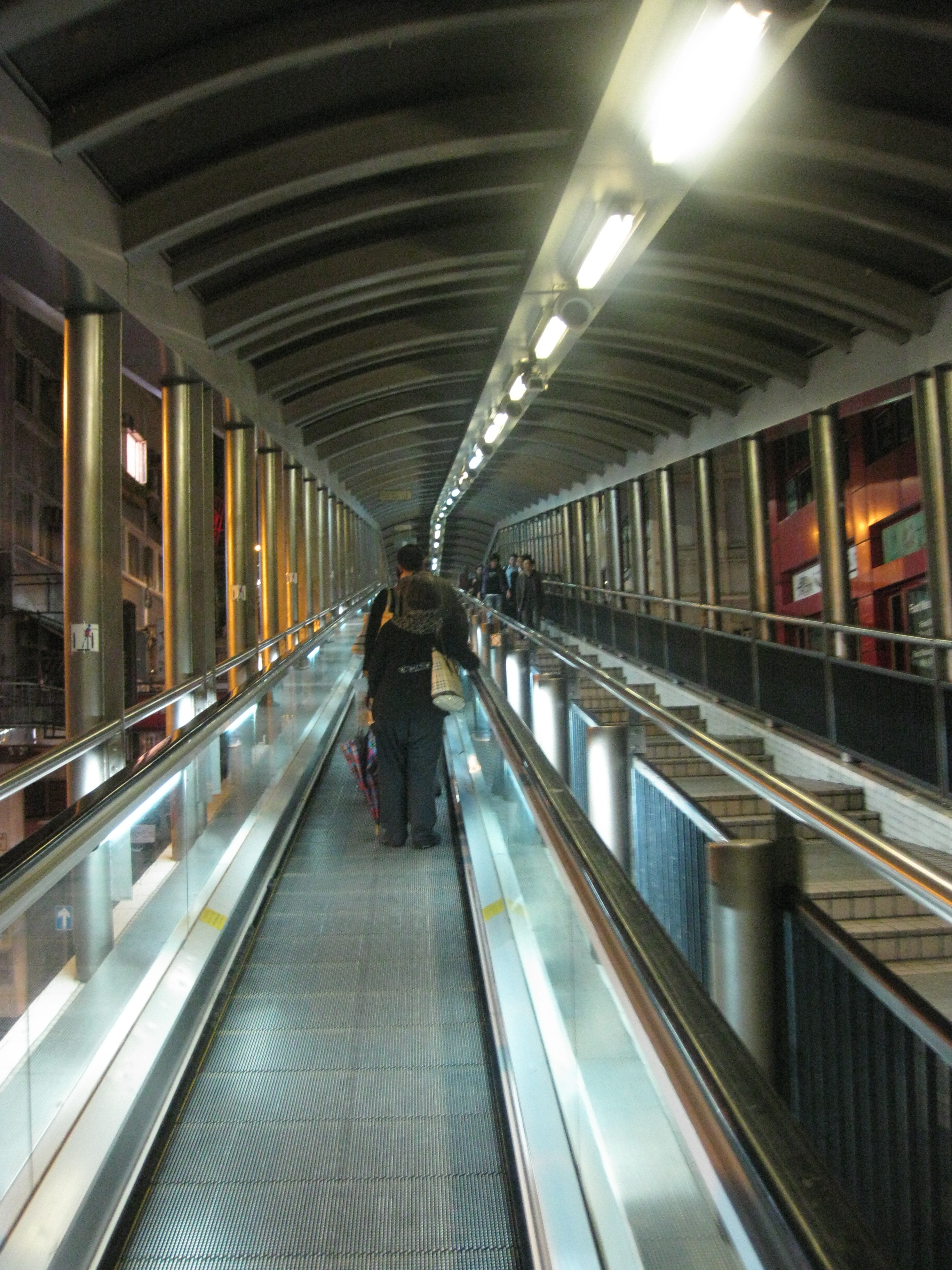 Central-Mid-Levels escalators - interior